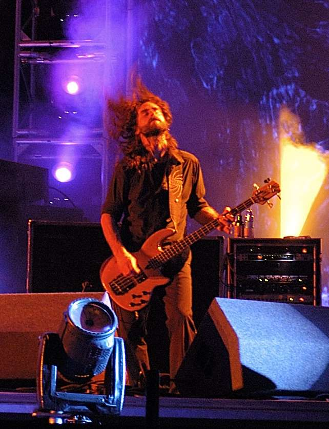 justin chancellor appearing with tool at the roskilde festival 2006 (cropped)